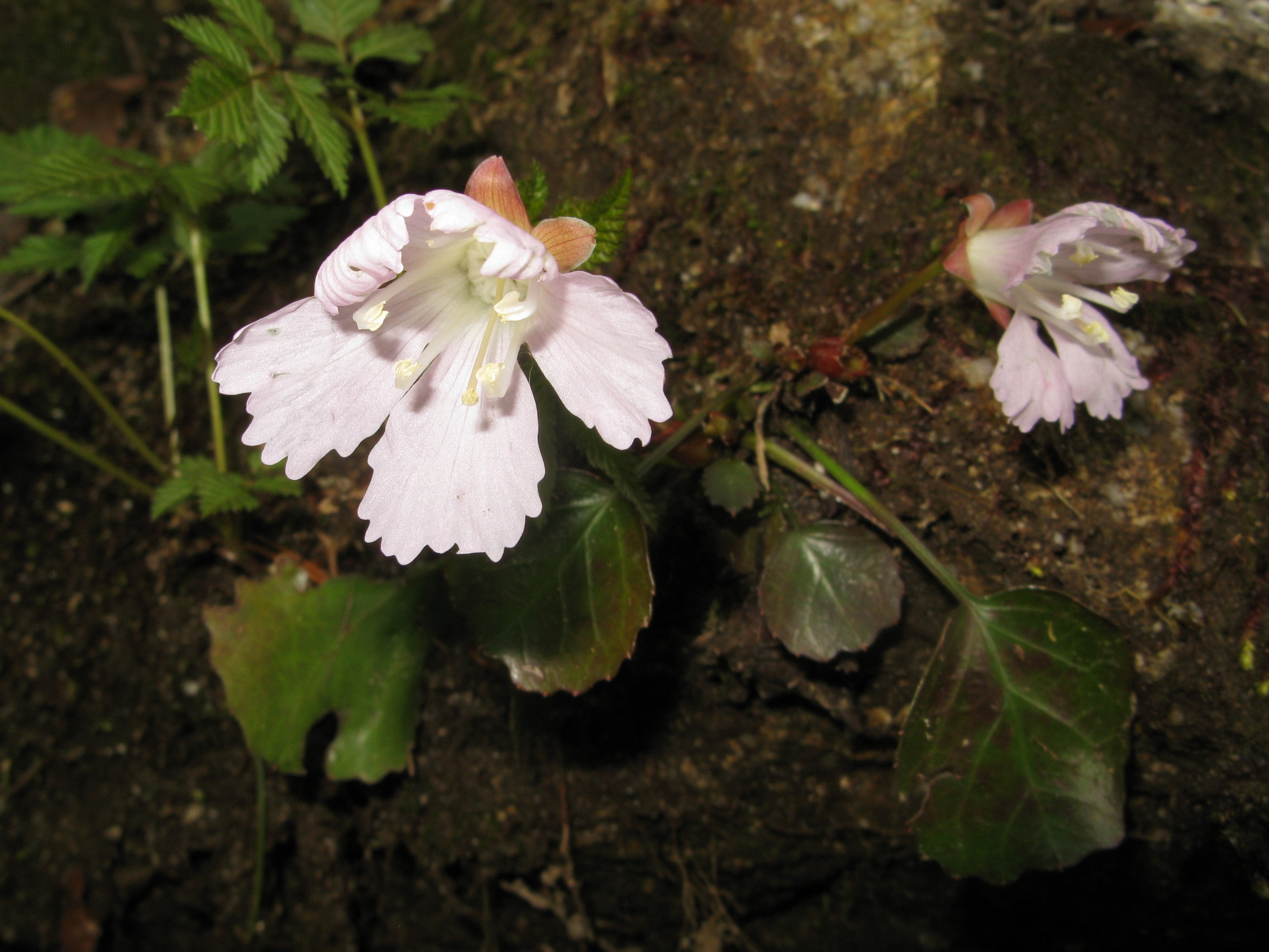 Shortia uniflora, Aizu area, Fukushima pref., Japan